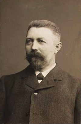 Peder Pedersen Pinstrup (1861-1934), Danish farmer and politician, MP